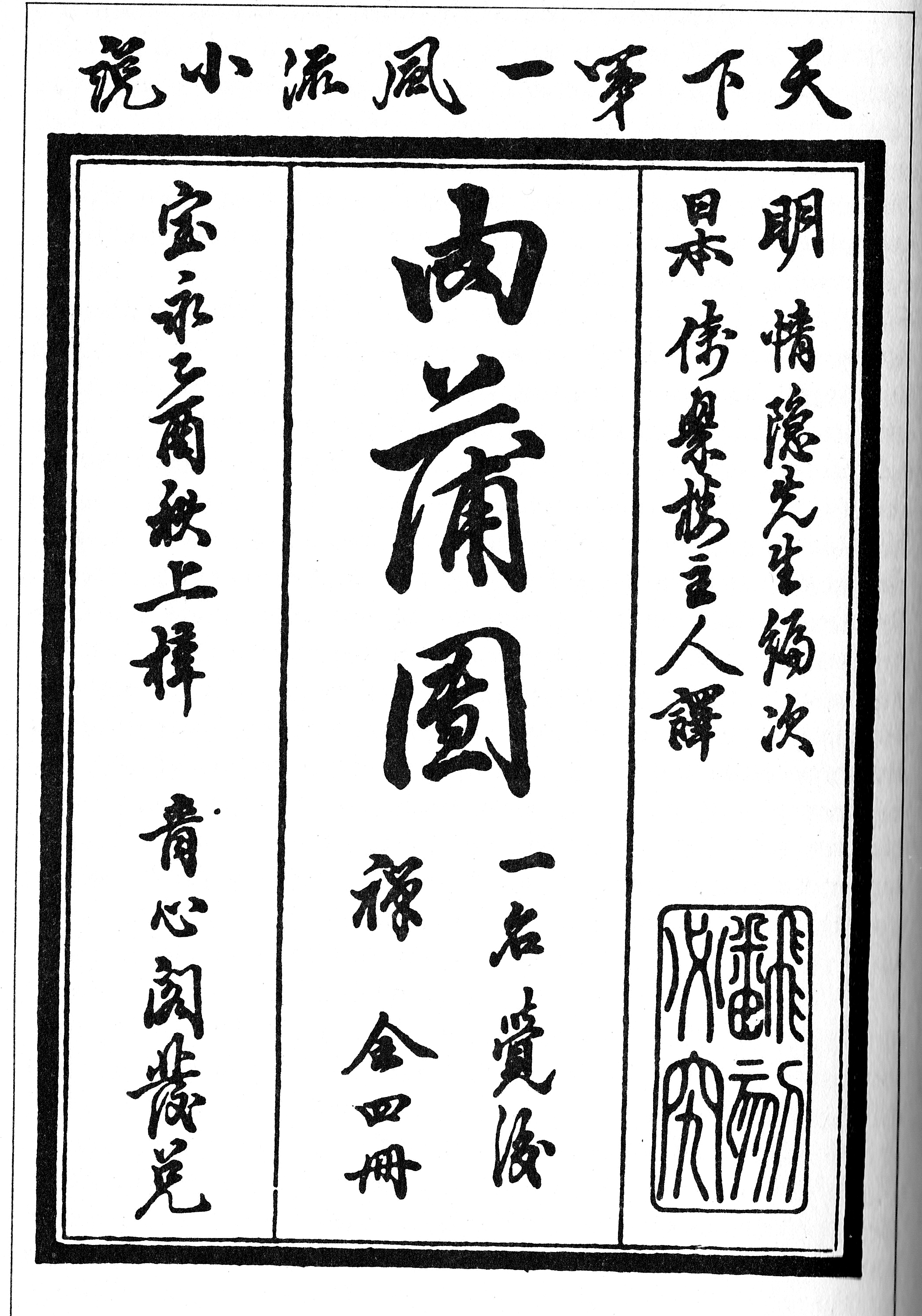 Cover page of 1705 book Rouputuan